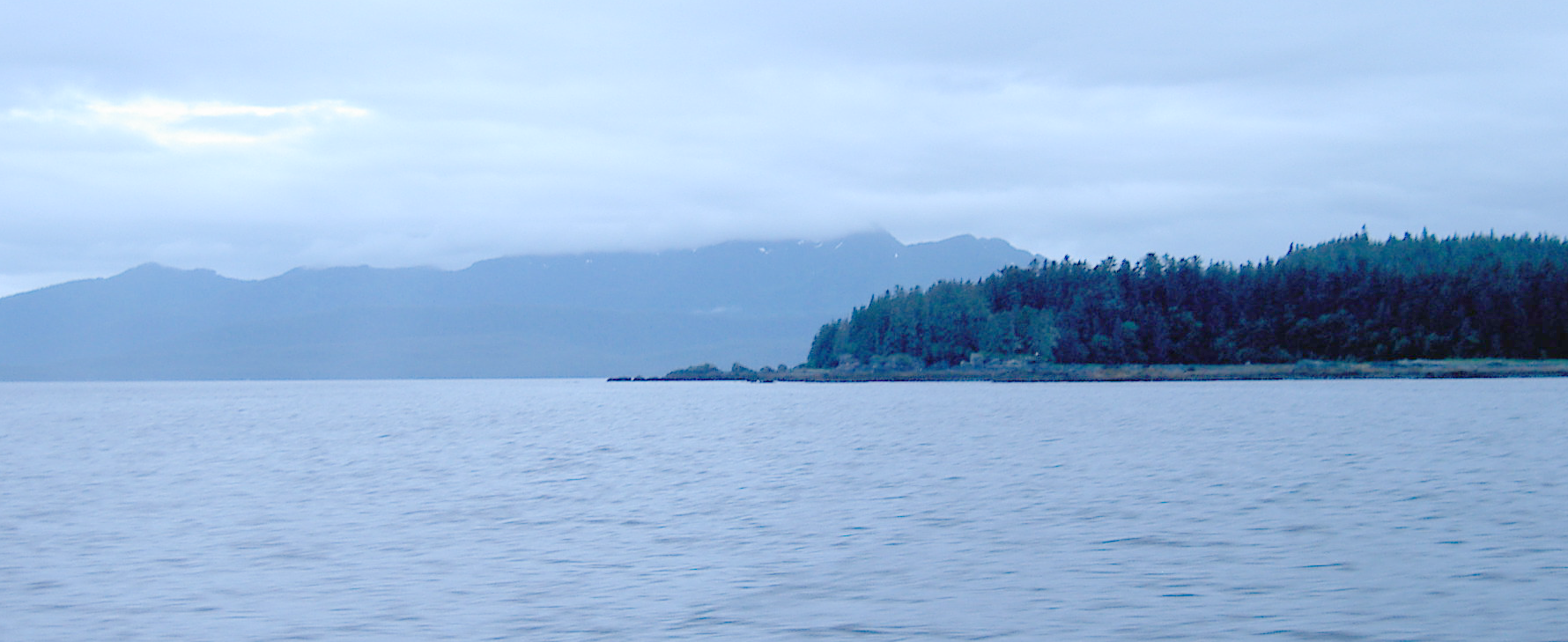 profile view of Point Hugh at the south tip of Glass Peninsula in Admiralty Island, southeast Alaska, USA from the east, with mountains in the background